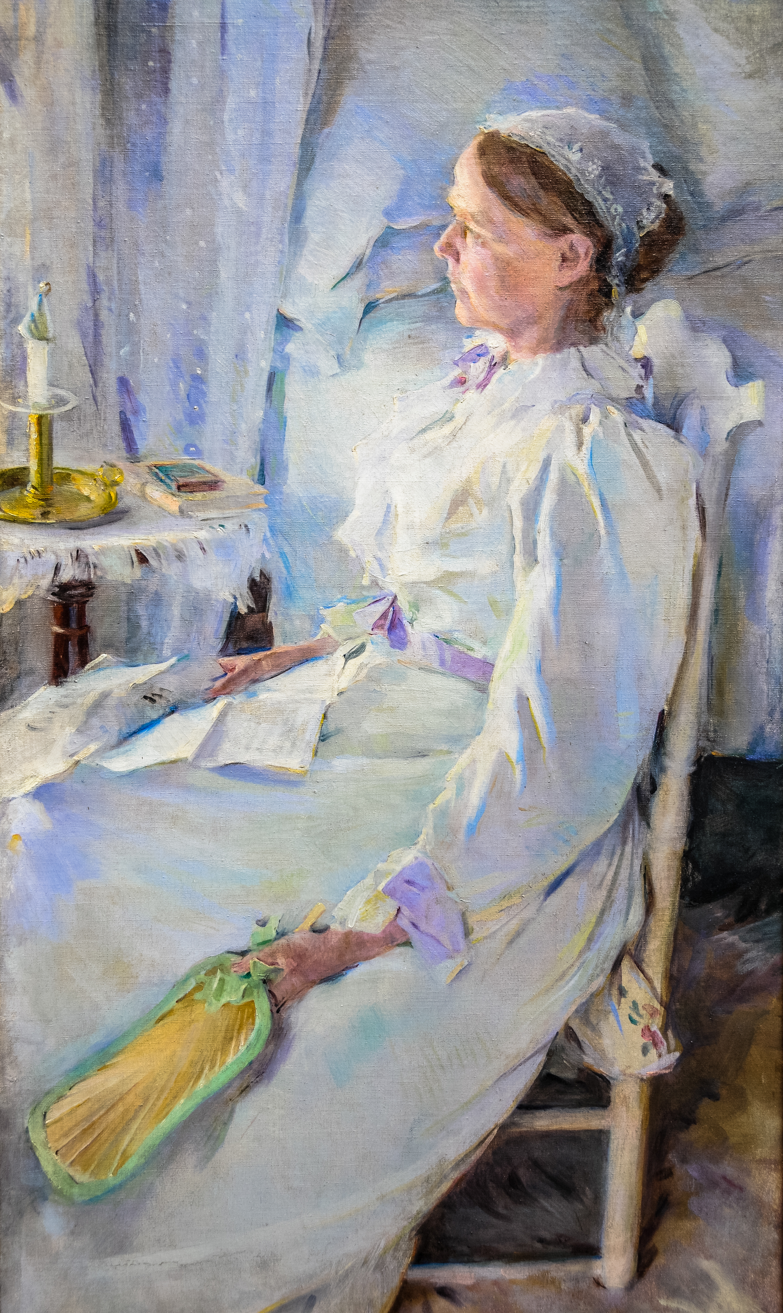 New England Woman (Mrs. Jedediah H. Richards). Portrait by Philadelphia artist Cecilia Beaux of her cousin Julia Leavitt (Mrs. Jedediah H. Richards) seated on a white-painted wooden chair. Courtesy of the Pennsylvania Academy of Fine Arts, Philadelphia, Pennsylvania.